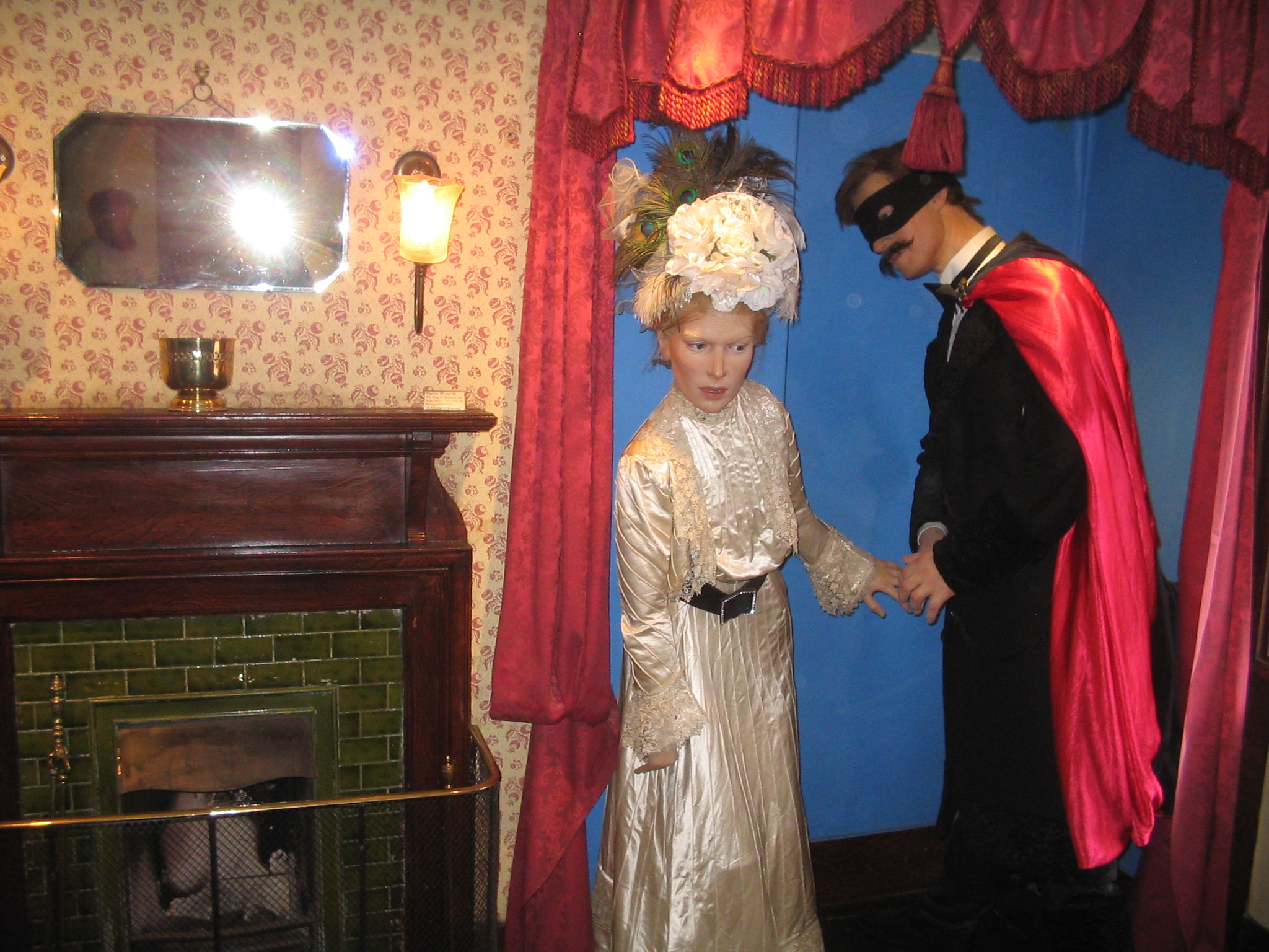 A Scandal in Bohemia (Trafalgar Sq., Holmes Museum, Hyde Park)